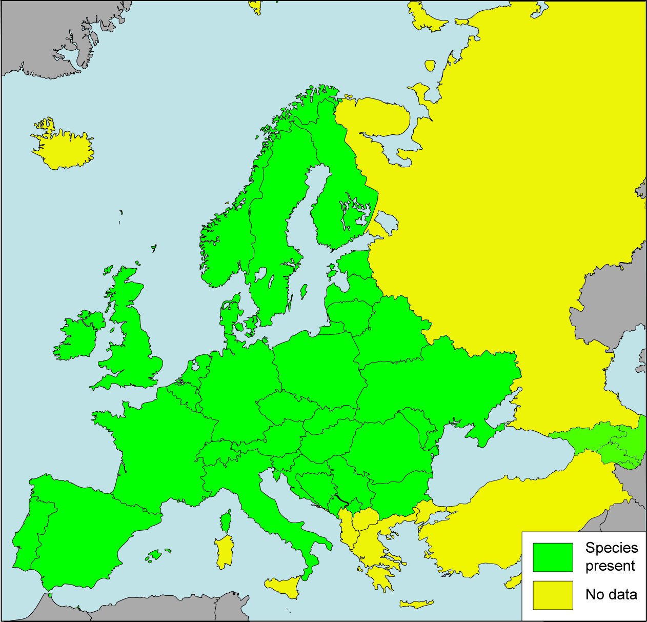 'Carychium minimum', land snail species: presence in European countries based upon data from: [1]